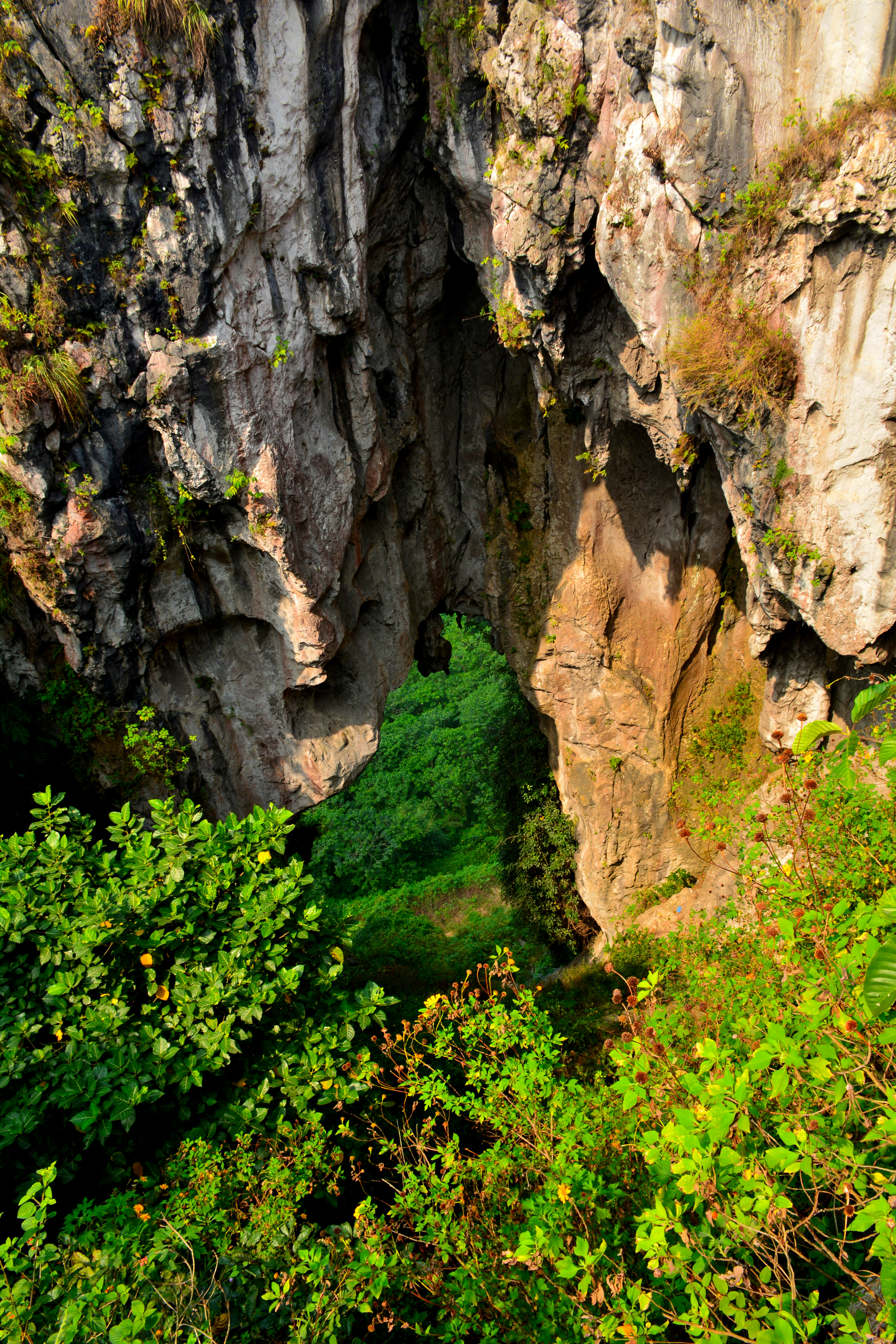 The hole in mount Hawu where its name is derrived from (a hole used for traditional cooking by placing firewood in it = Hawu in Sundanesse) viewed from above